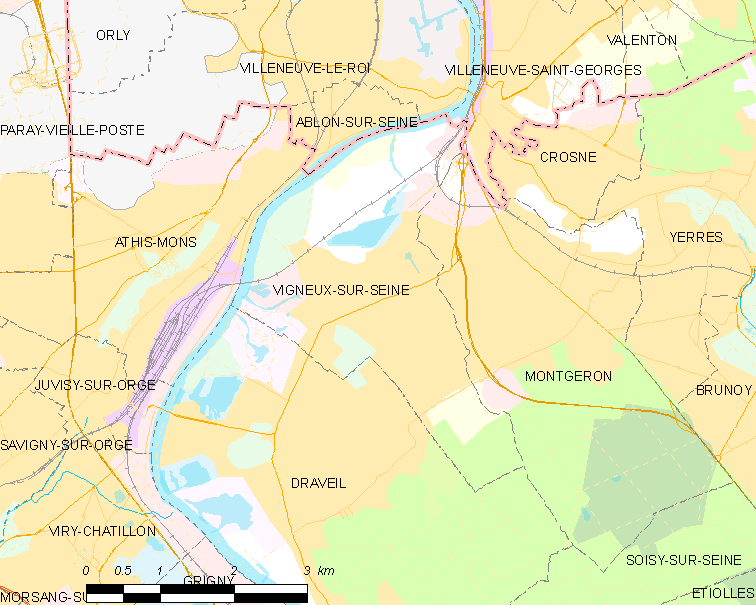 Map of French municipality Vigneux-sur-Seine